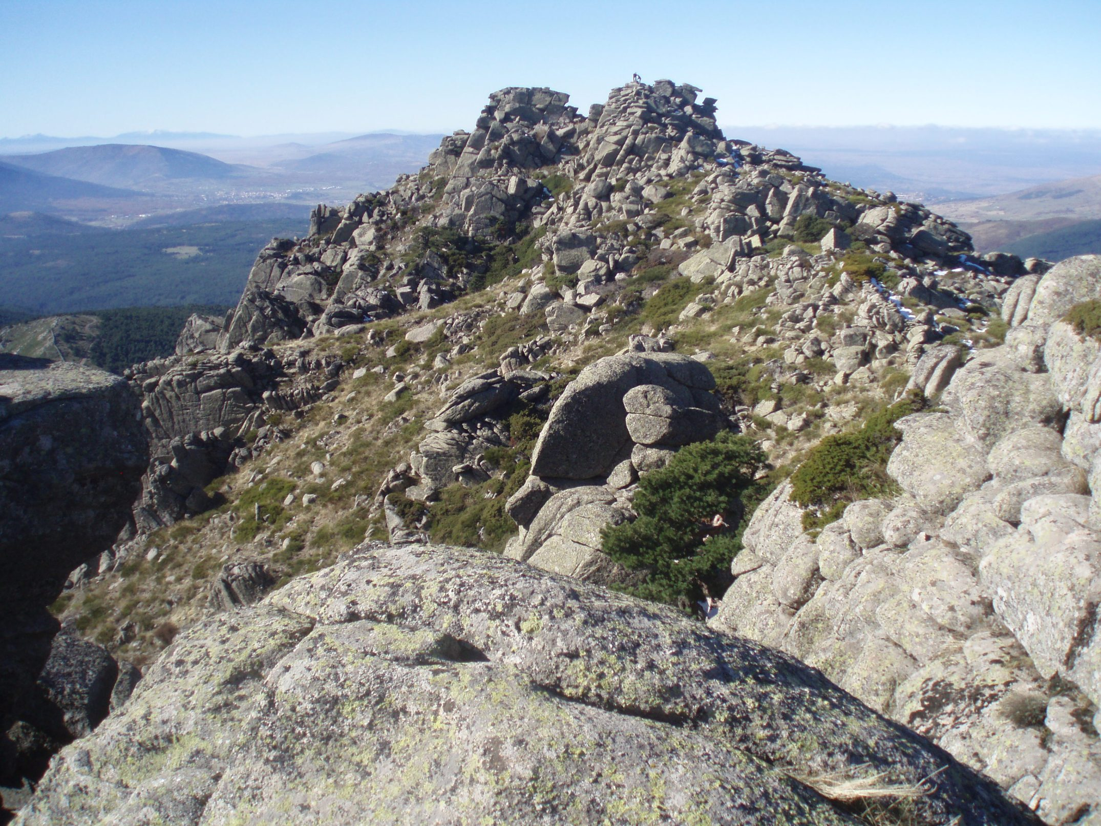 La Peñota summit (Guadarrama mountain range, Central Spain).